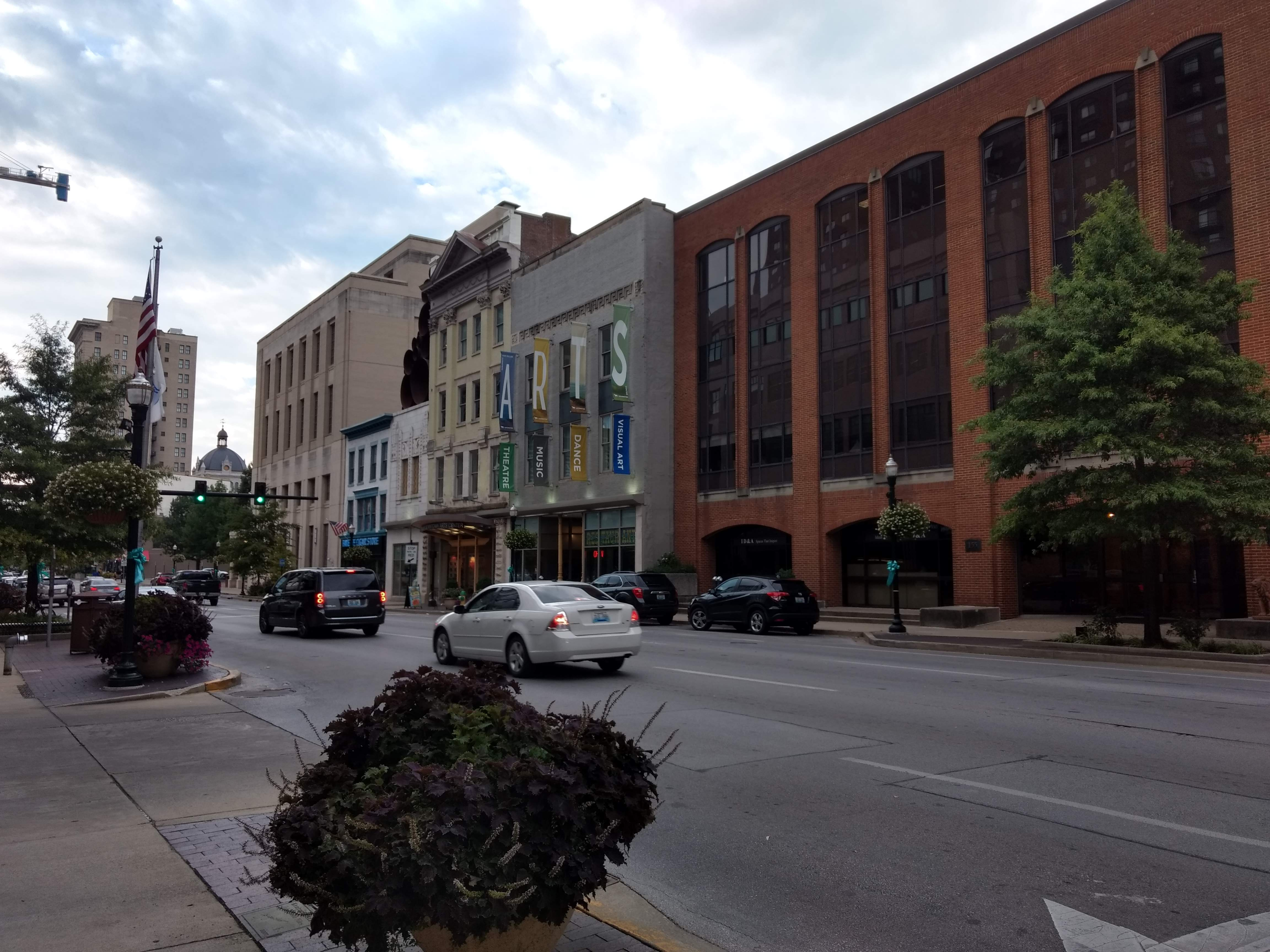 East Main Street Lexington Kentucky 2018